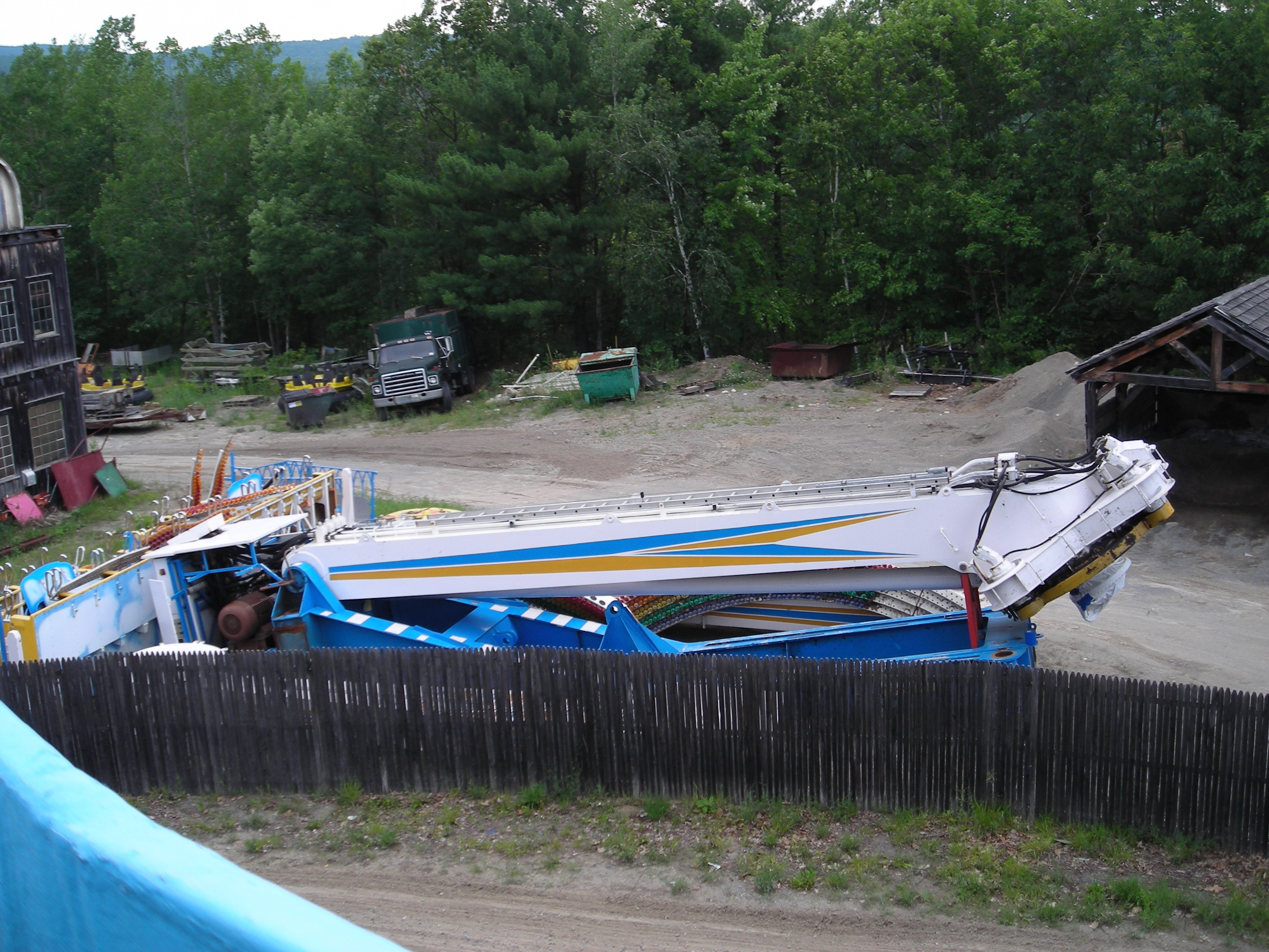 These are the pieces of the Rainbow, which is defunct and it was replaced by the Sasquatch in 2009. The pieces were stored behind the Nightmare. They disapeared from there in 2012. The photo was taken on the Plunge.